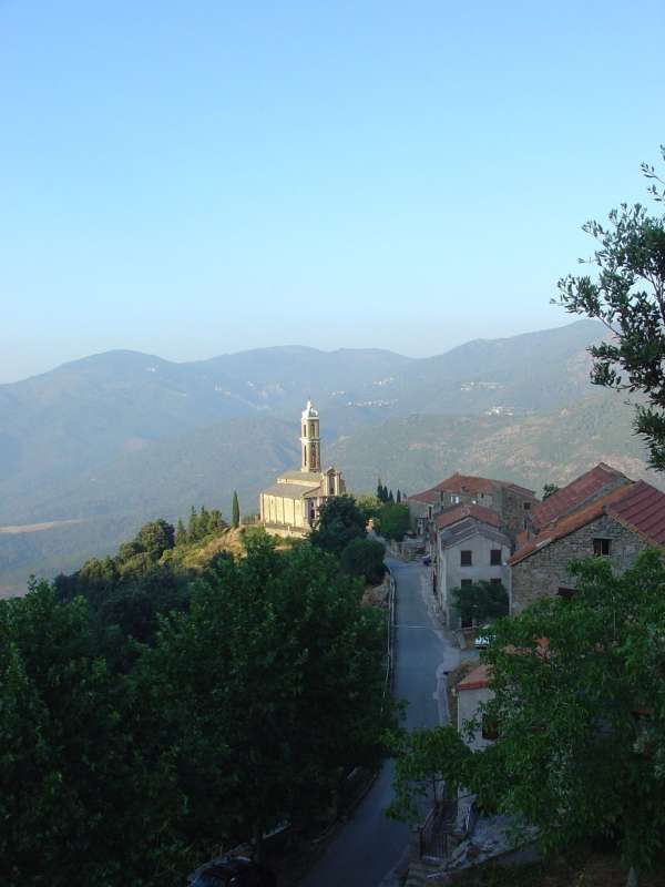 Aiti (Haute-Corse, France) small village. by Maxime Agostini